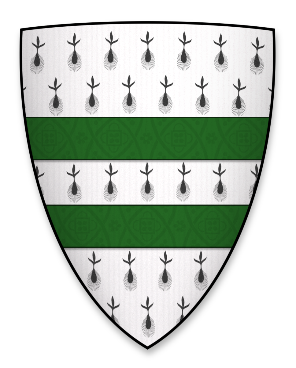 Coat of arms of William de Lanvallei, Lord of Standway Castle